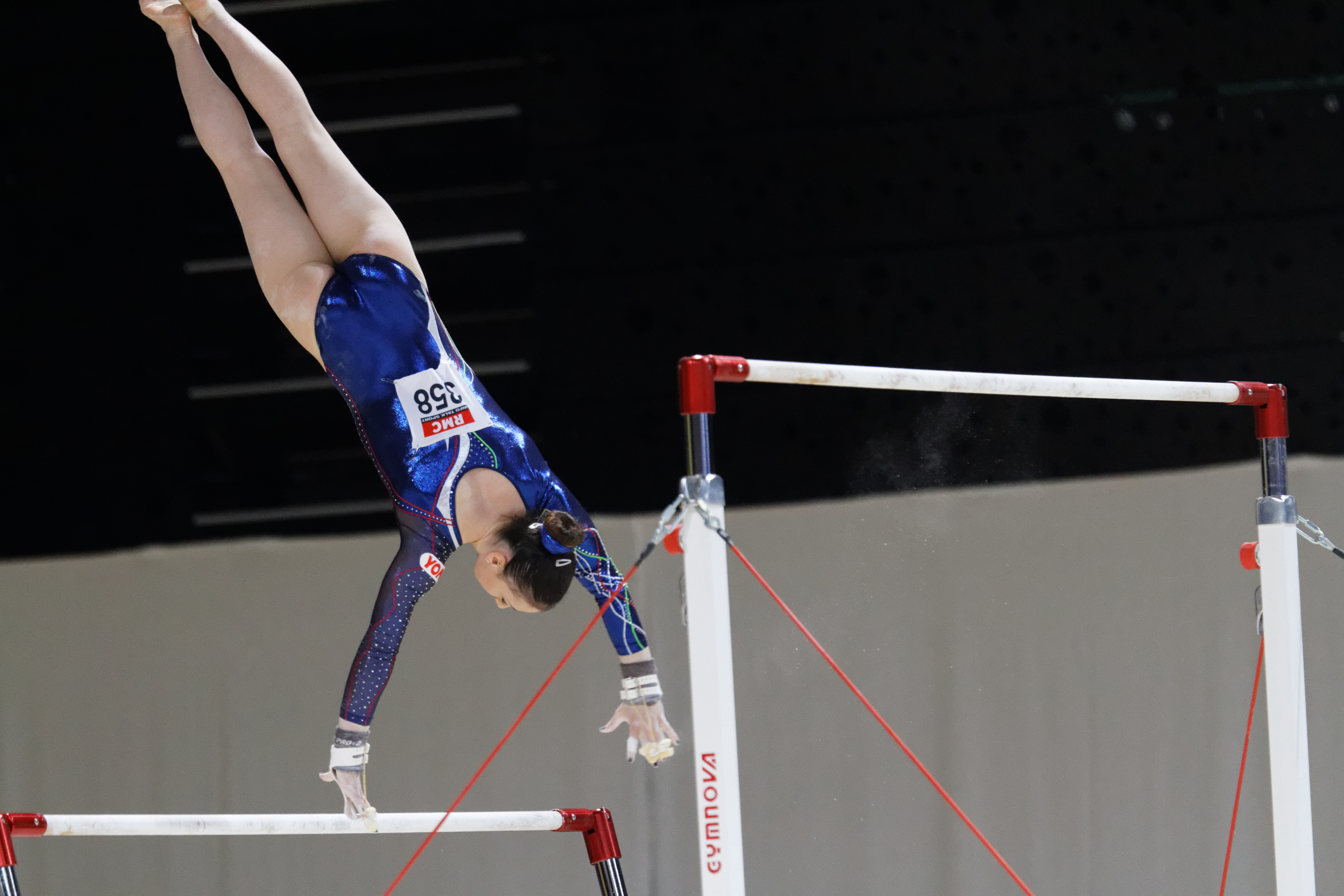 2015 European Artistic Gymnastics Championships. Uneven bars.